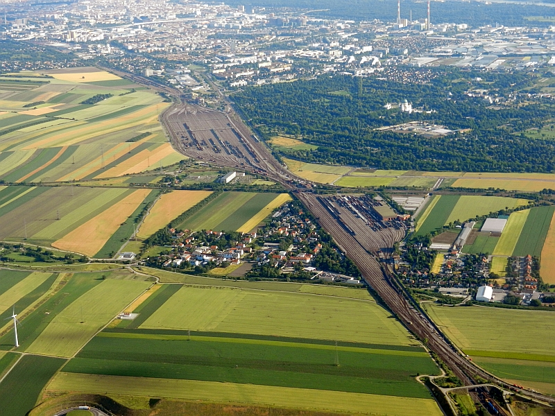 Zentralverschiebebahnhof Wien-Kledering in 2011